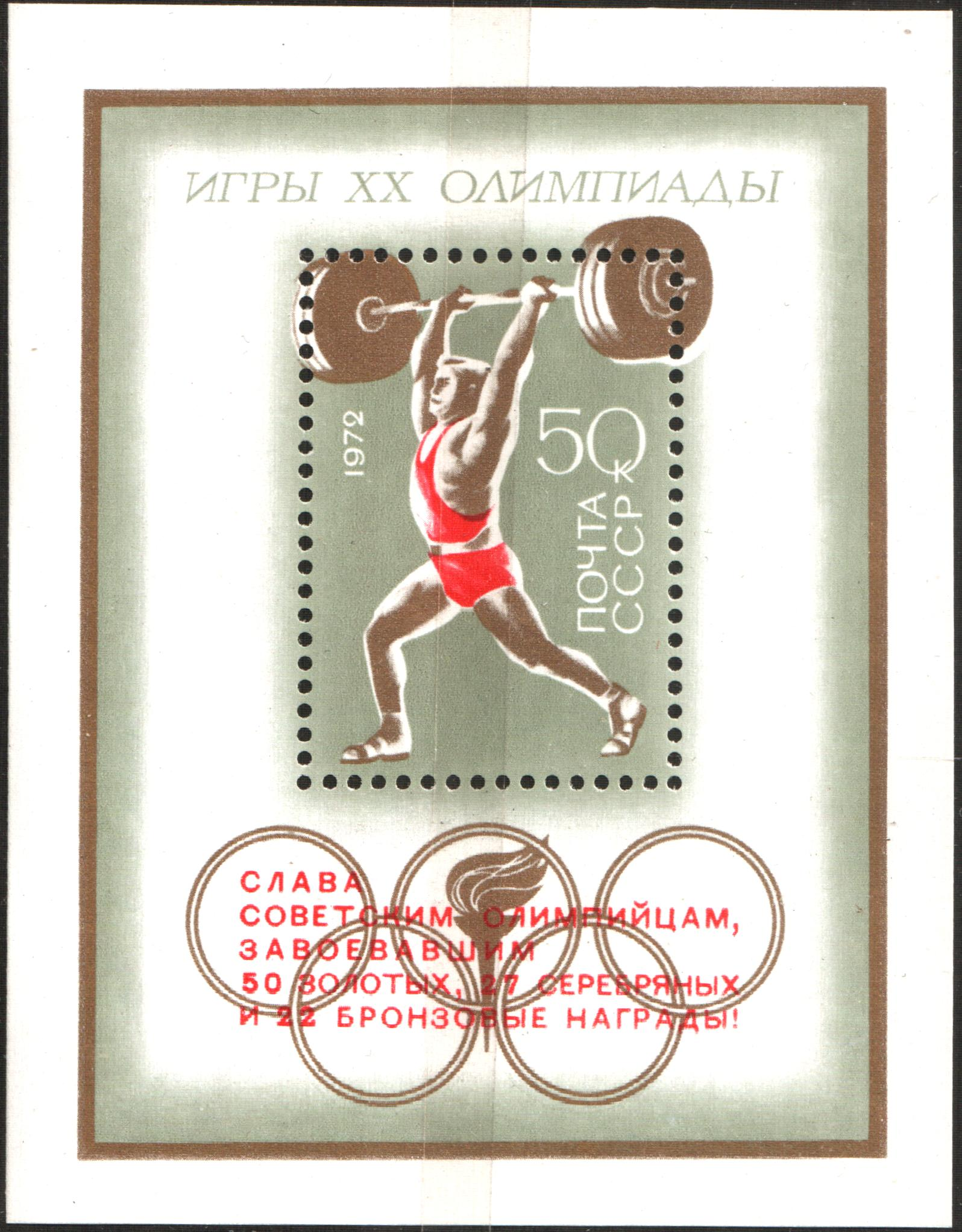 USSR stamp